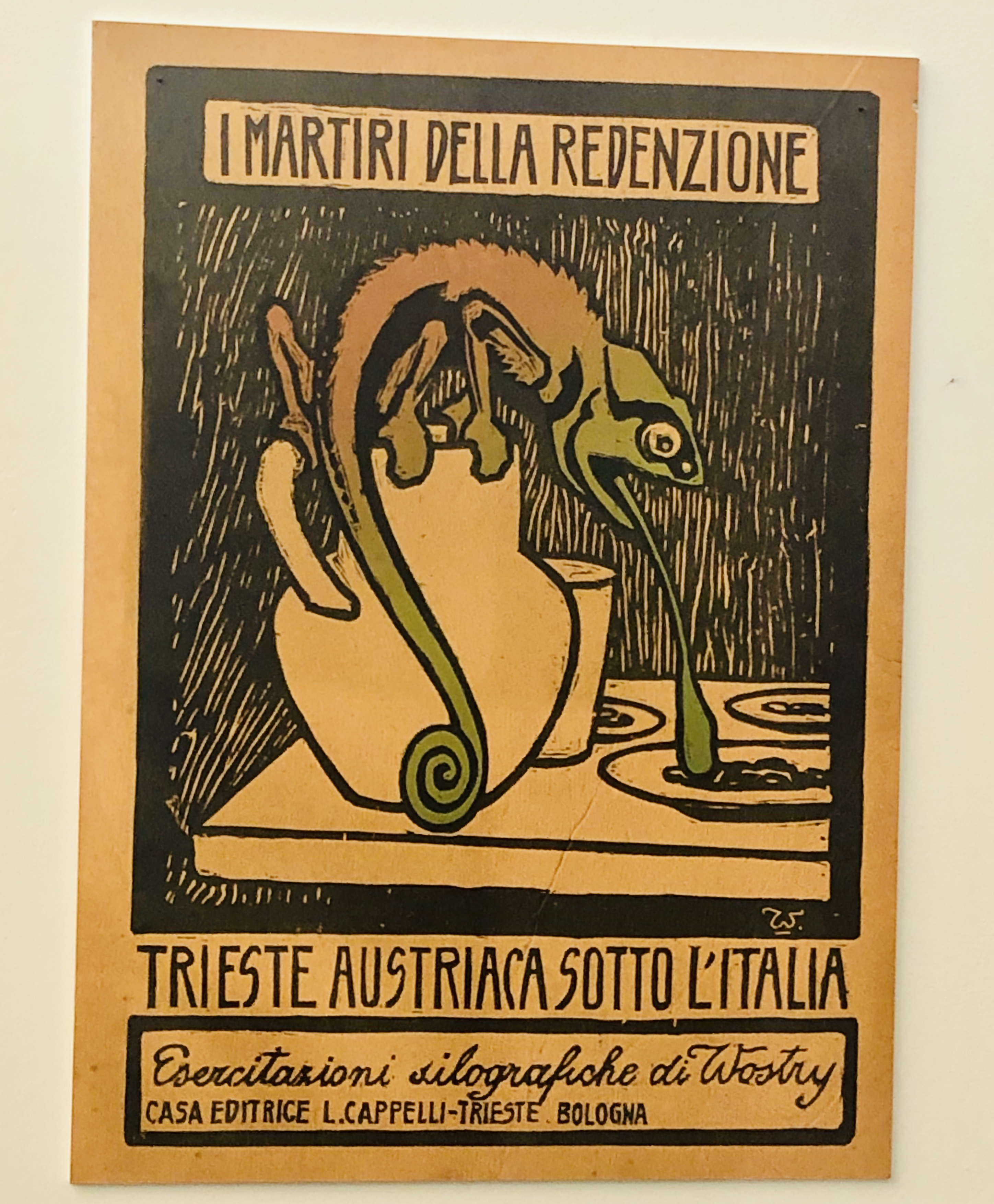 Cover of a series of satirical prints, 1919